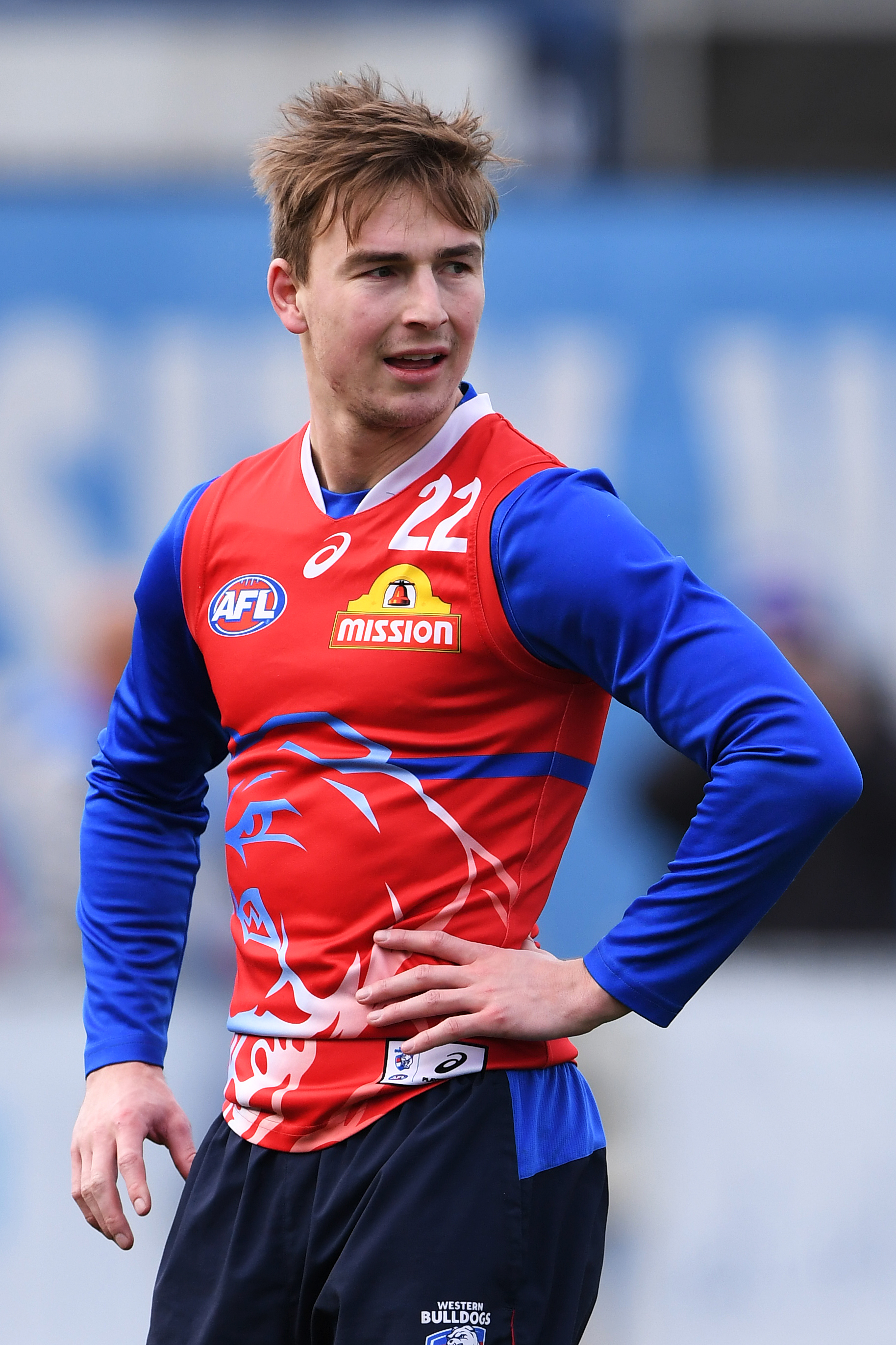 Mitch Honeychurch of the Western Bulldogs during Western Bulldogs training on 7 August 2018 at Whitten Oval in Melbourne, Victoria.